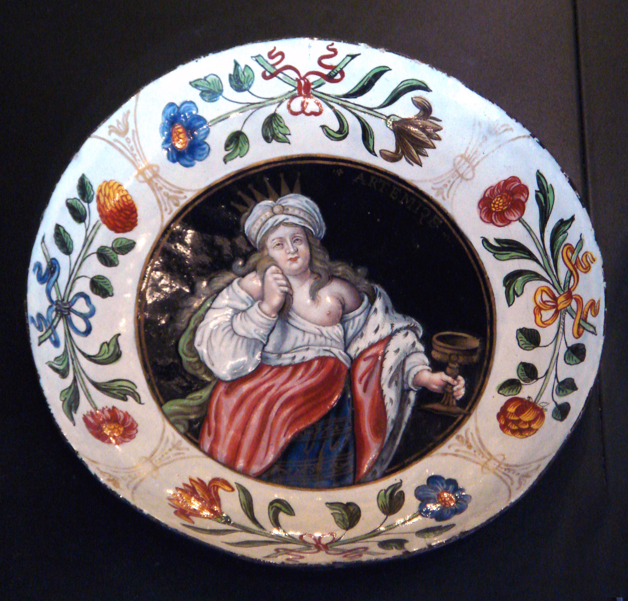 Limoges_enameled_copper_plate_circa_1700.